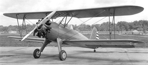 St. Louis Aircraft Corporation XPT-15 trainer s/n 39-702 at Wright Field.